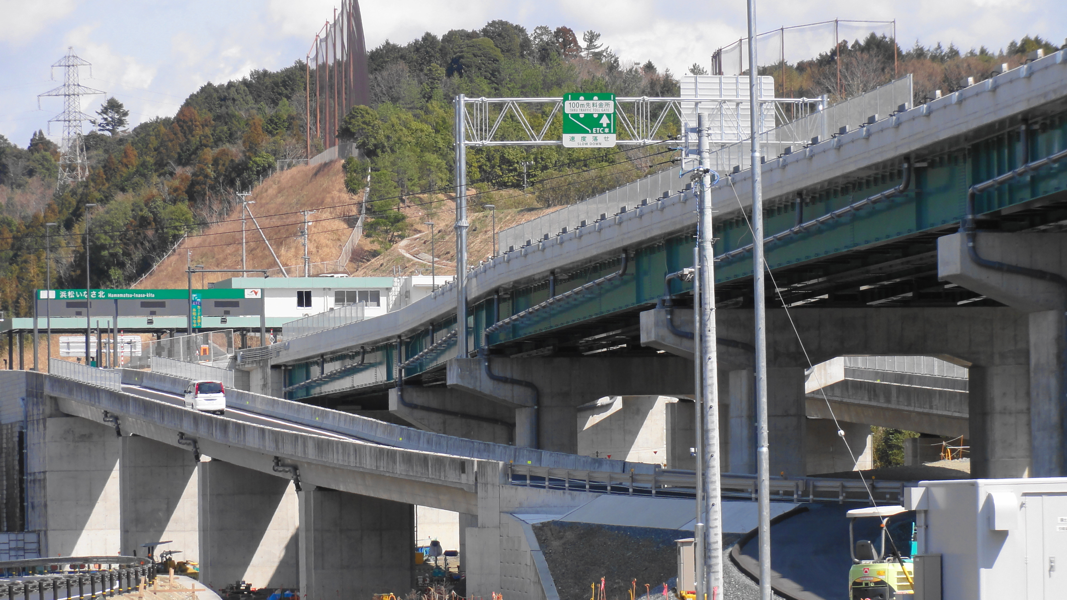 Hamamatsu-Inasa-kita Toll gate,Shizuoka prefecture, Japan